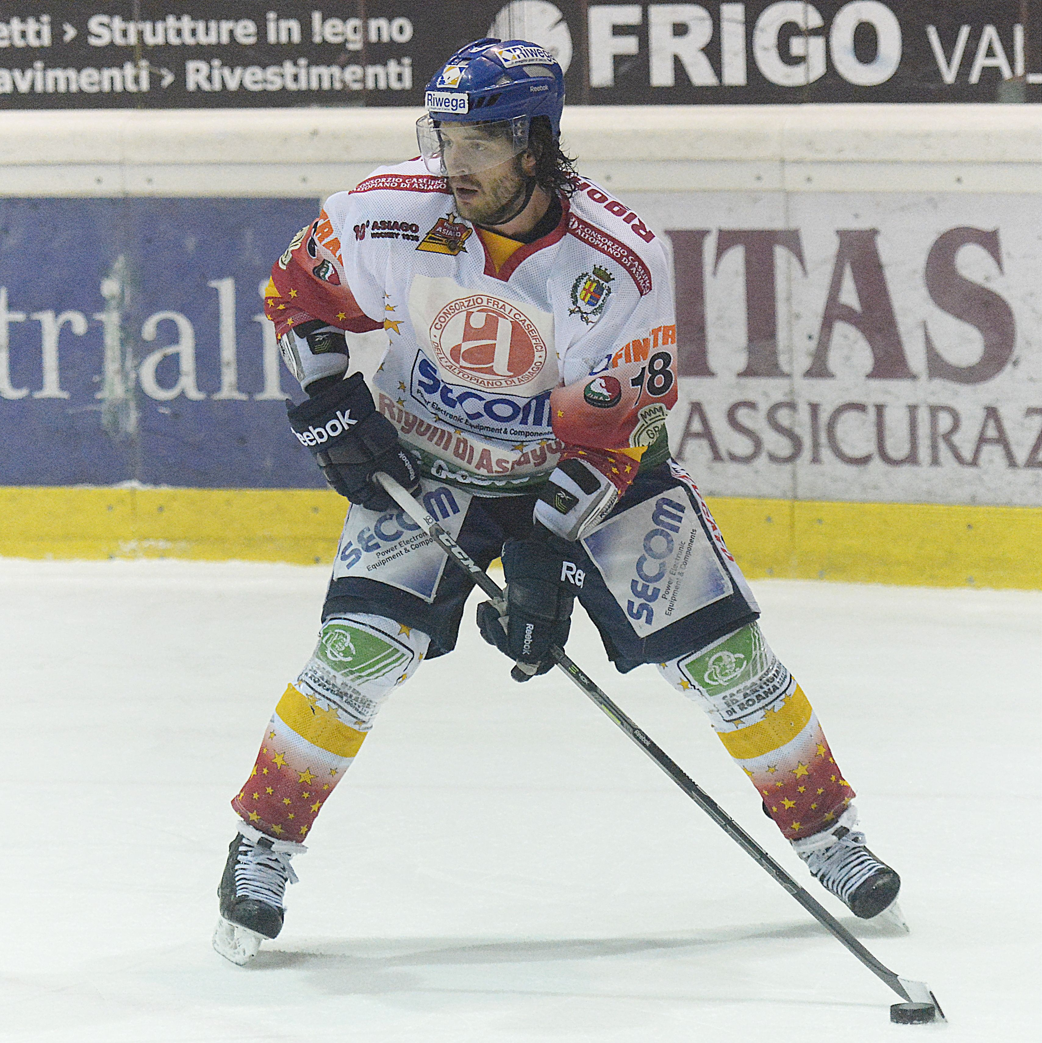 Layne Ulmer in action in the match #3 of semifinal Championship 2014/2015 against Milan